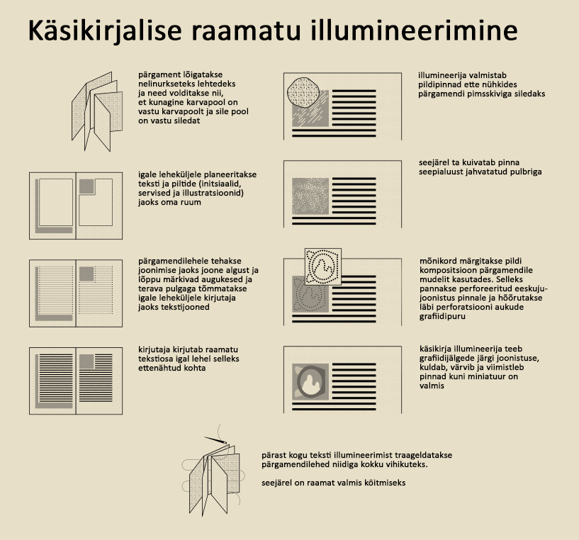 A common process of manuscripts illumination from the creation of the quire to the binding, with estonian translation